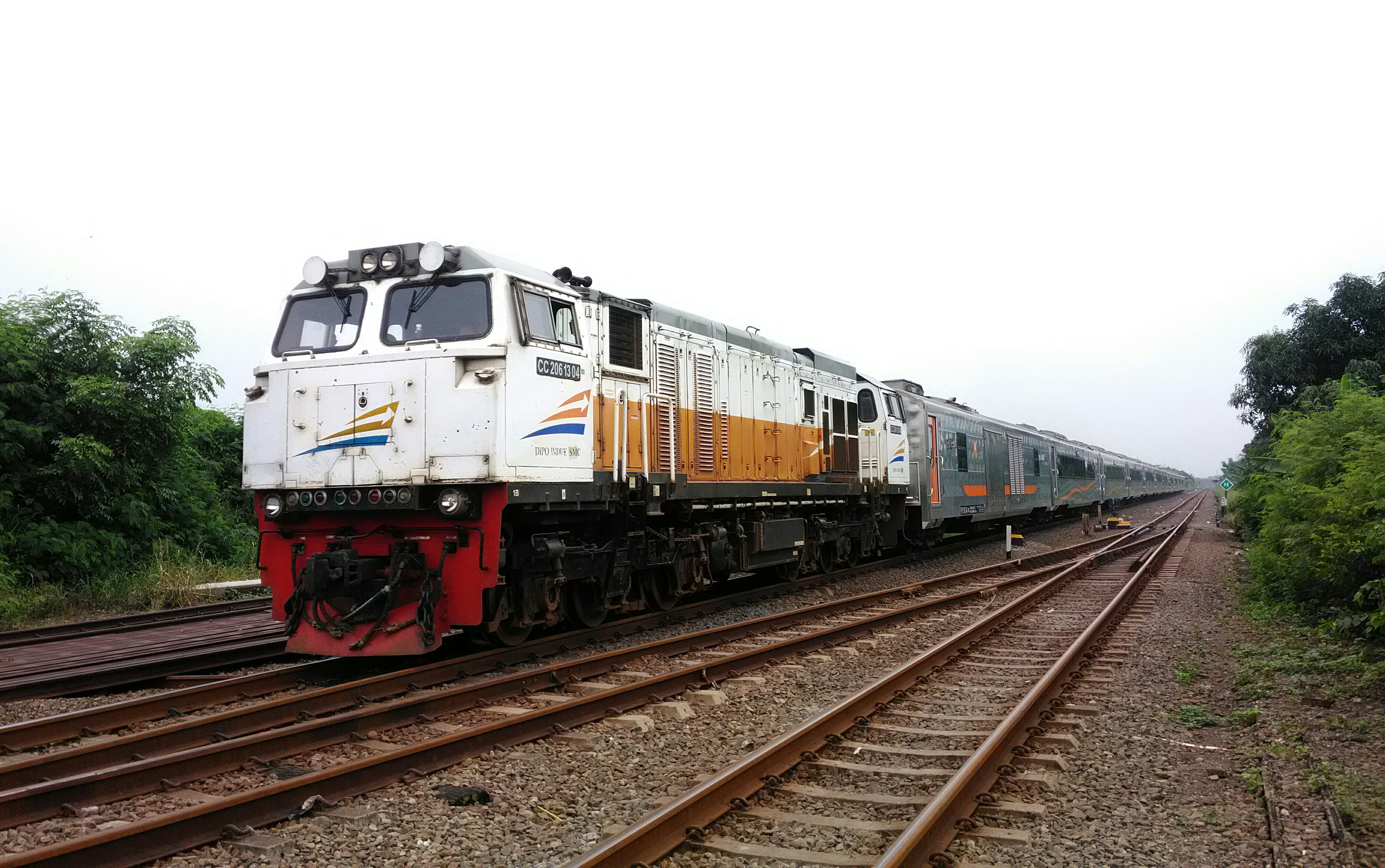 Argo Bromo Anggrek Stainless Steel Train preparing crossing Cikampek Railway Station